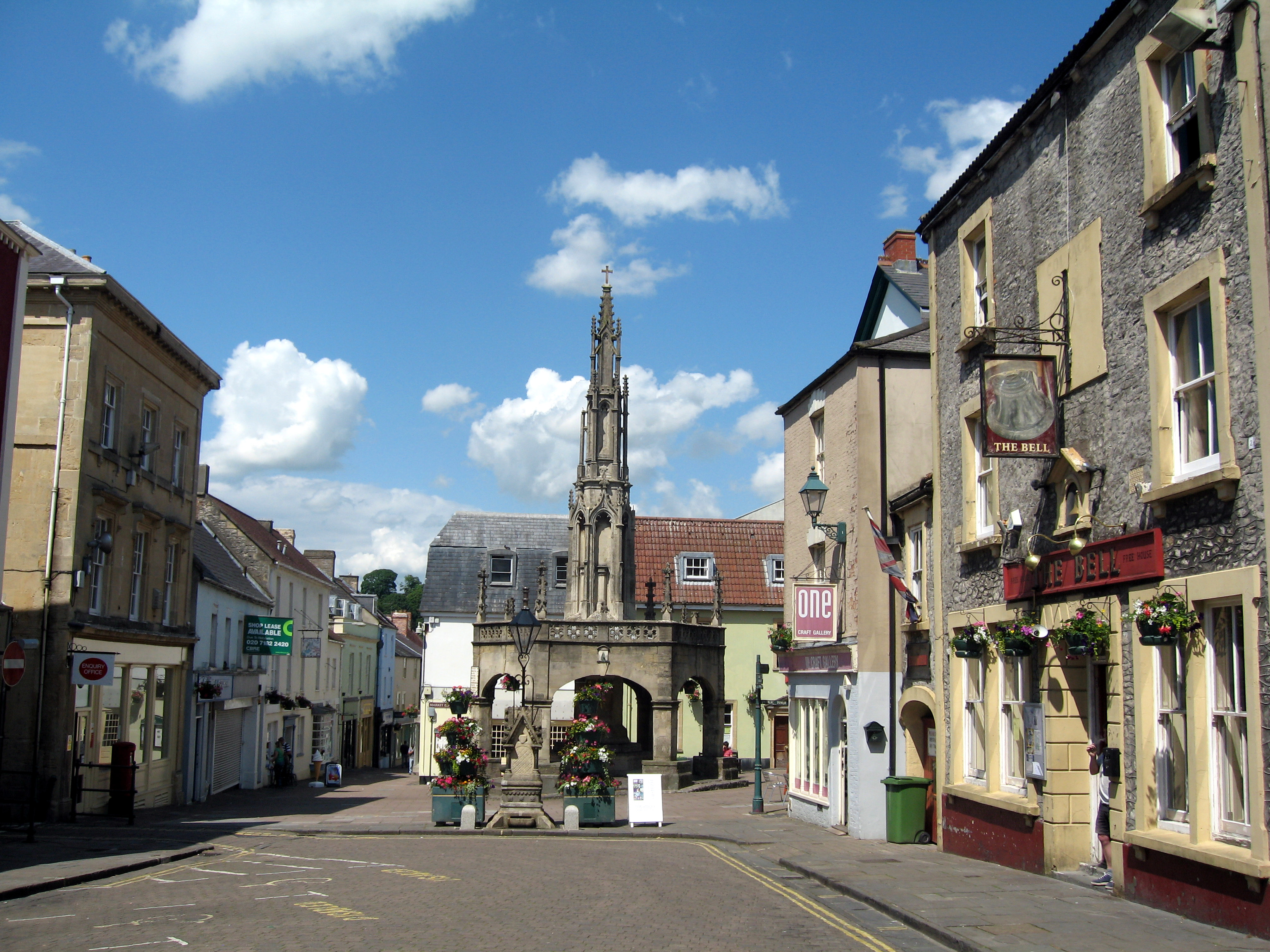 The car-free marketplace and floral decorations of Shepton Mallet, a small town on the edge of the Mendip Hills in Somerset, UK. The town is marked in the Domesday Book of 1086 and successive market charters were granted in 1235, 1260 and 1318. The principal industry was the wool trade through the Middle Ages; later, brewing and shoemaking became important. The market cross is a fine example of its type; nearby are preserved butcher's market stalls known as the Shambles. Picture taken by wurzeller on 14 June 2008